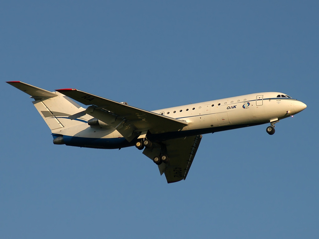 Operated by OAK/Irkut corporation